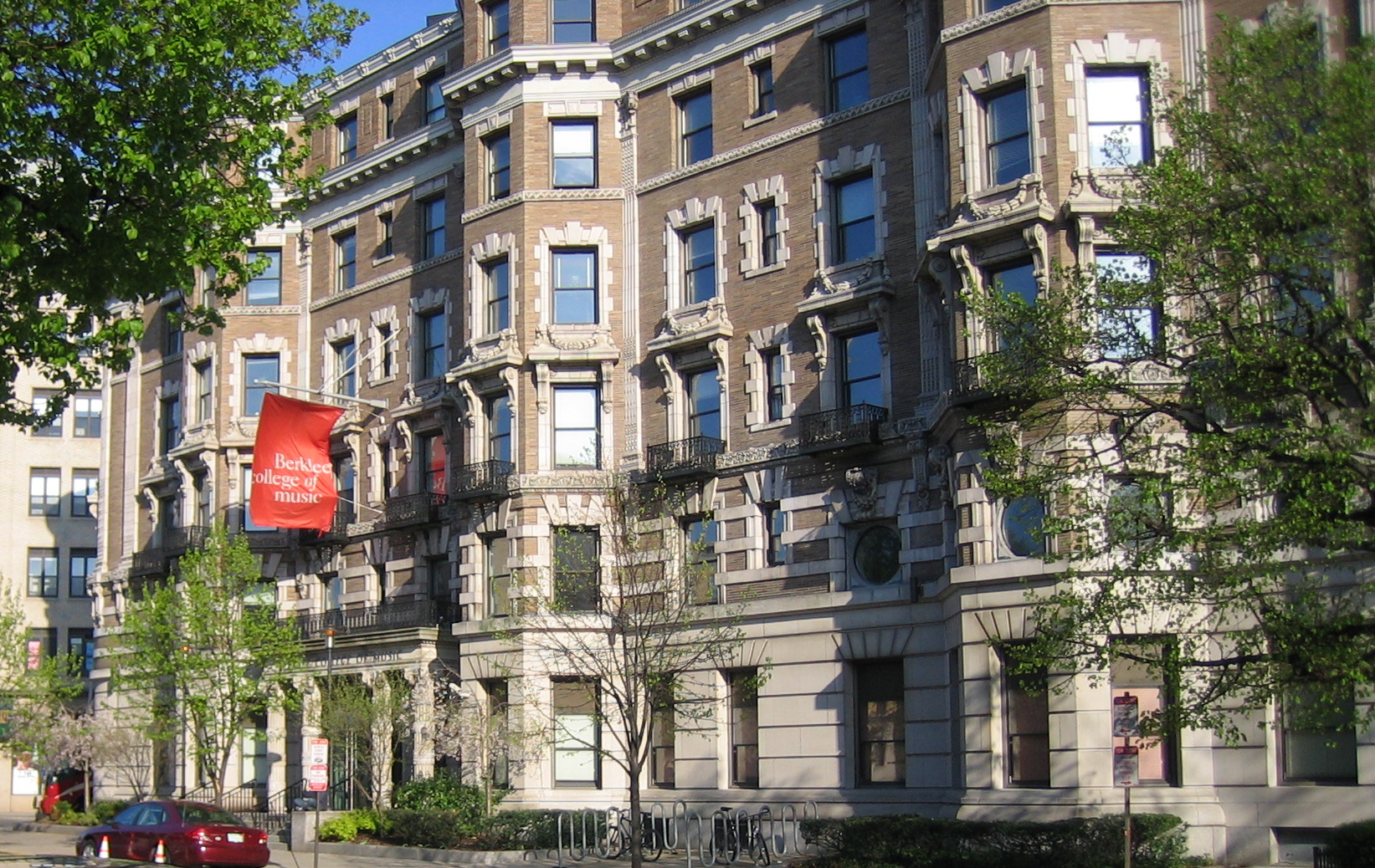 Berklee College of Music, 1140 Boylston St. in Boston, Massachusetts.